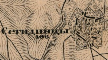 Village on the map 1830. The author of this map is Friedrich von Schubert (1789-1865).